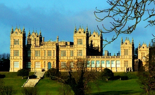 Cropped version of a distant view of the Mentmore Towers.